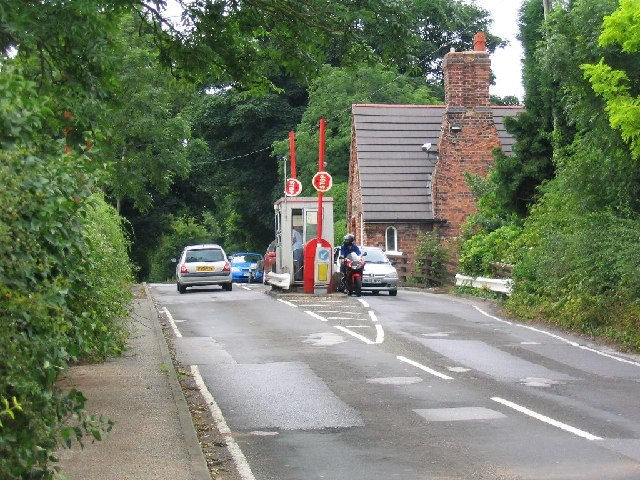 Toll Booth. This is Warburton Toll Booth, owned by the Manchester Ship Canal Company.